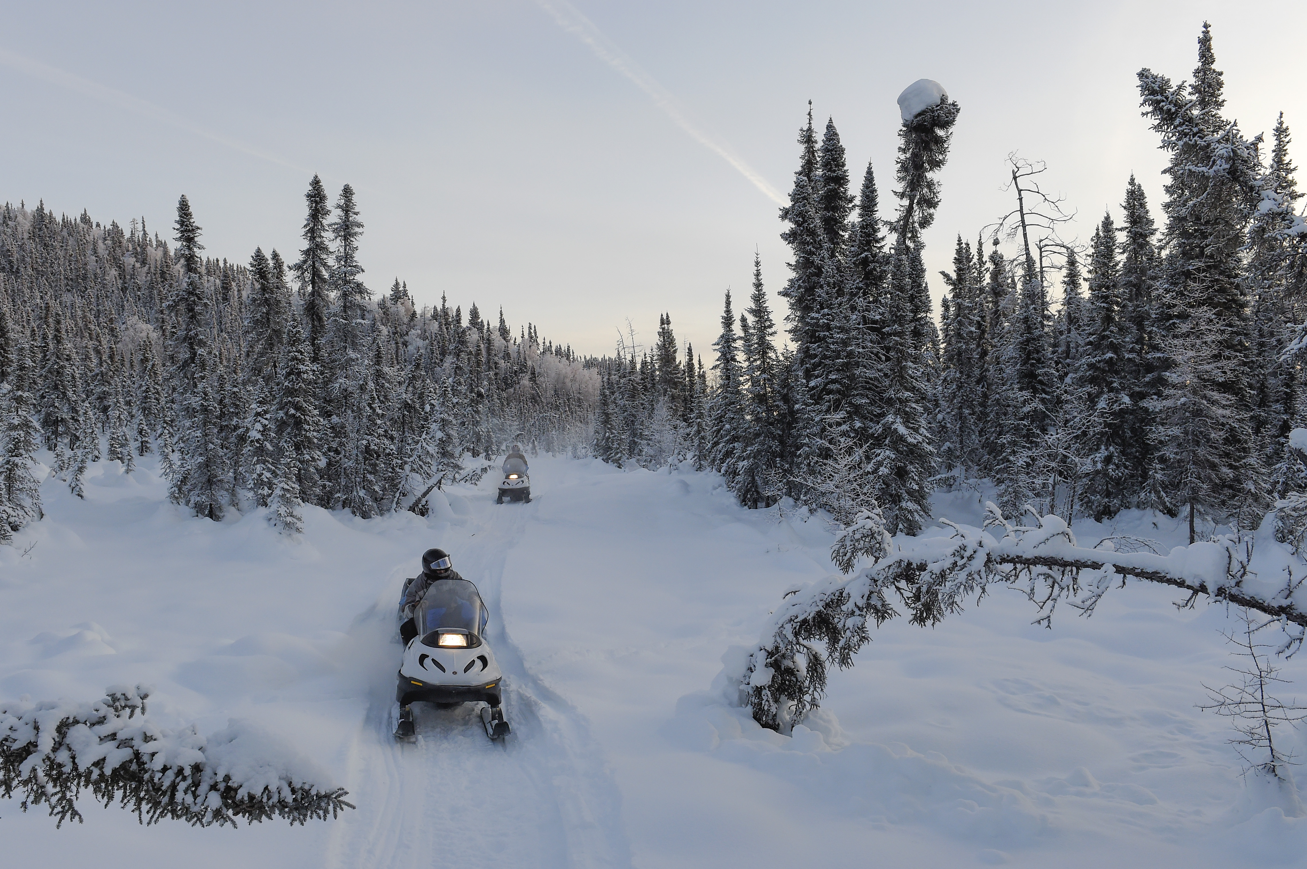 MCGRATH, Alaska -- U.S. Marines assigned to Delta Company, 4th Law Enforcement Battalion, deliver toys to children living in remote villages of Alaska as part of the Toys for Tots program, Dec. 10. After traveling to a remote hub of villages via aircraft provided by the 144th Airlift Squadron, Alaska Air National Guard, the Marines travel to different villages on snow machines. This year three teams of Marines traveled to numerous villages in the vicinities of Kotzebue, Galena and McGath. Toys for Tots is a program run by the United States Marine Corps Reserve with a goal of delivering, through a new toy at Christmas, a message of hope to less fortunate youngsters that will assist them in becoming responsible, productive and patriotic citizens. (U.S. Air Force photo/Alejandro Peña)